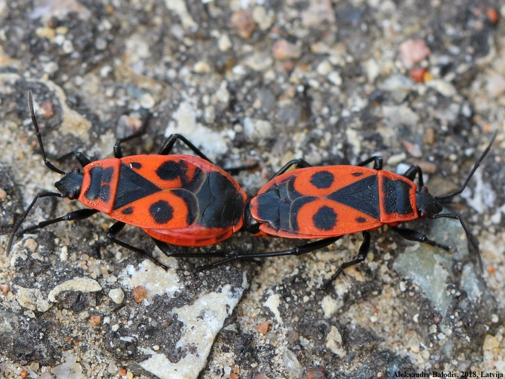 Pyrrhocoris apterus